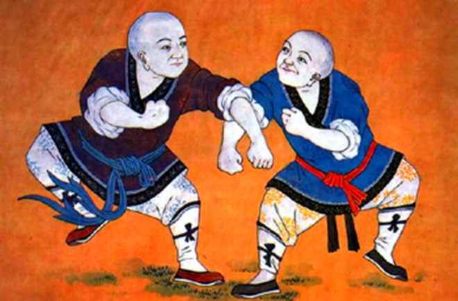 Shaolin Monks